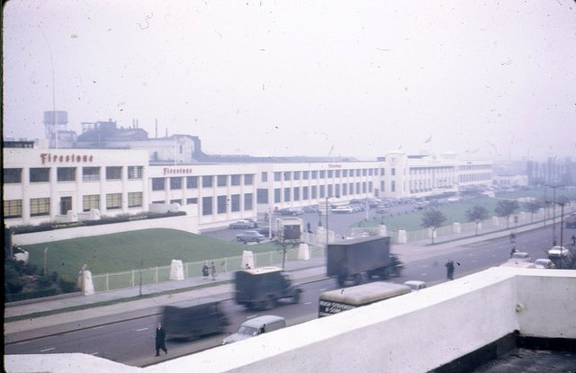 Firestone's Factory 1963 This view of the facade of Firestone's Tyre Factory on the Great West Road was taken from the roof of the Admiralty Oil Laboratory, which was itself the 2nd factory from the junction of the Great West Road & Syon Lane.